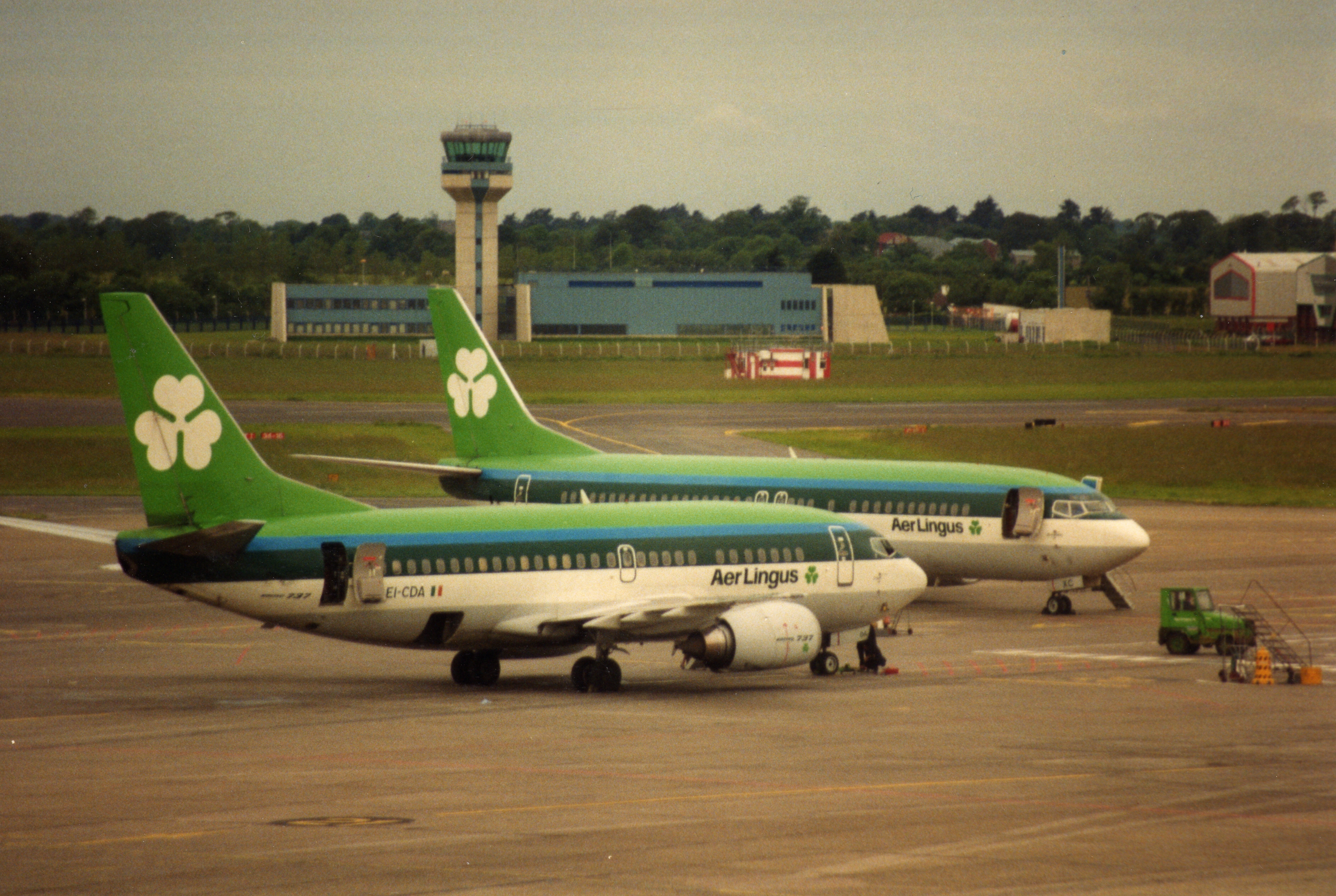 Aer Lingus (EI-CDD) Boeing 737-500 aircraft, Dublin Airport, Dublin, Ireland, June 1993